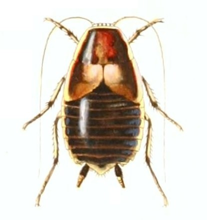 Temnopteryx sakalava = Lobopterella dimidiatipes - male